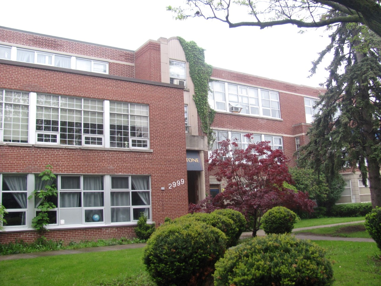 C.B. Parsons Junior High School in Toronto, Ontario, Canada. The building is occupied by the Fieldstone Day School.